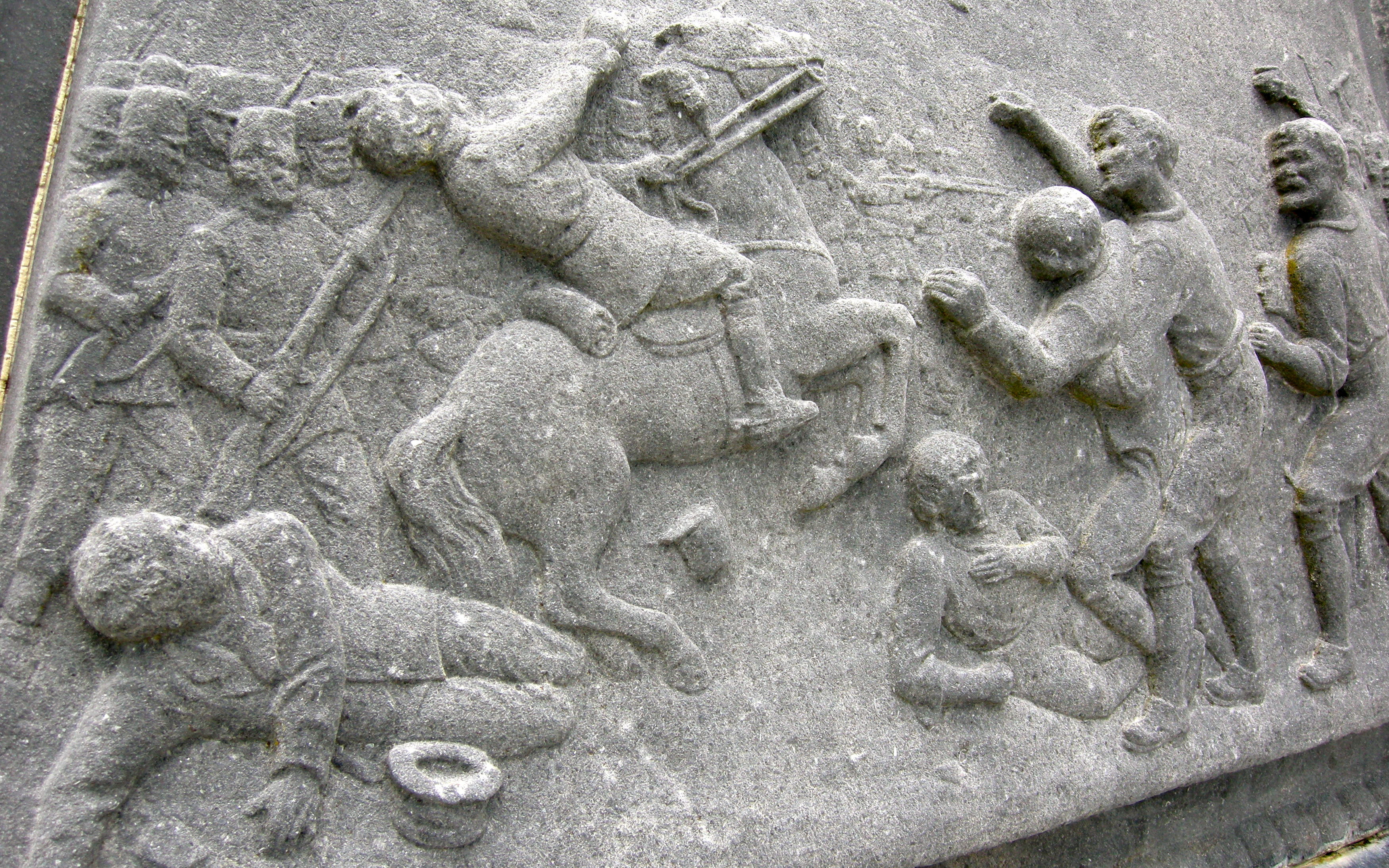 Bas-relief at the base of the stone cross memorial to the Carrickshock incident, near Hugginstown, County Kilkenny, Ireland. The cross erected in 1925 celebrates an affray in 1831 during the Tithe War in which a mass of local tenant farmers/peasants ambushed a party of RIC constables attempting to enforce payment of tithes owed to the Church of Ireland rector. The monument names four locals: the leader and the three who were killed. The tithe collection agent was killed along with thirteen RIC men, including Captain James Gibbons, depicted on horseback.